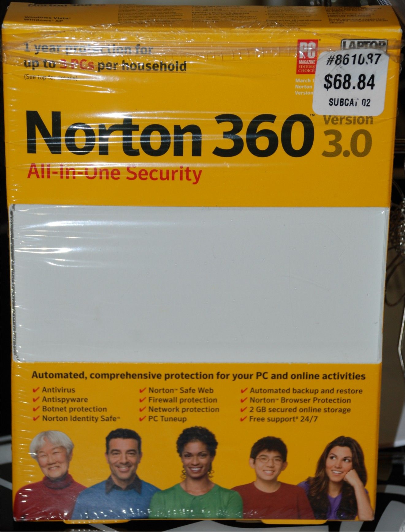 Photo of Norton 360 packaged software